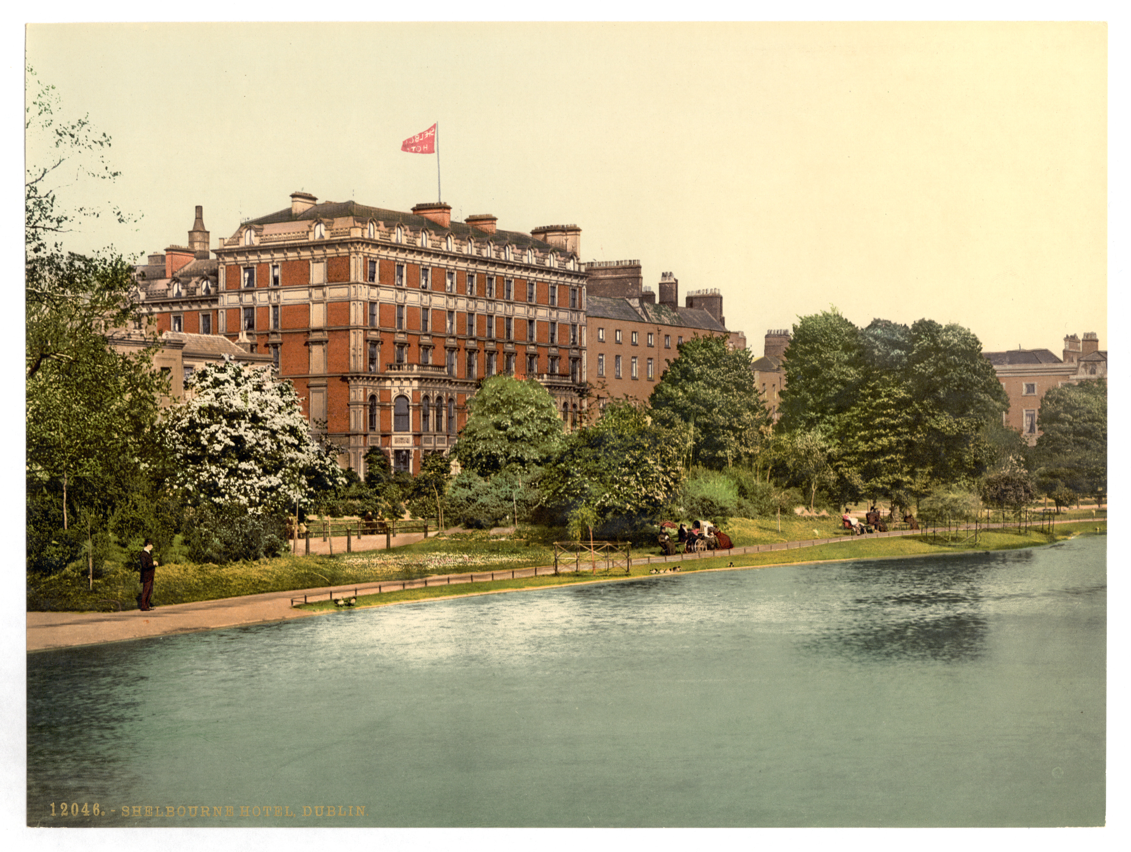 Shelbourne Hotel. Dublin. Co. Dublin, Ireland. This image belongs to the Category:Photochrom pictures in their original state. This is an unprocessed image. Its purpose is to show the properties of a photochrom print. Please do not modify this image. Modifications will be reverted.